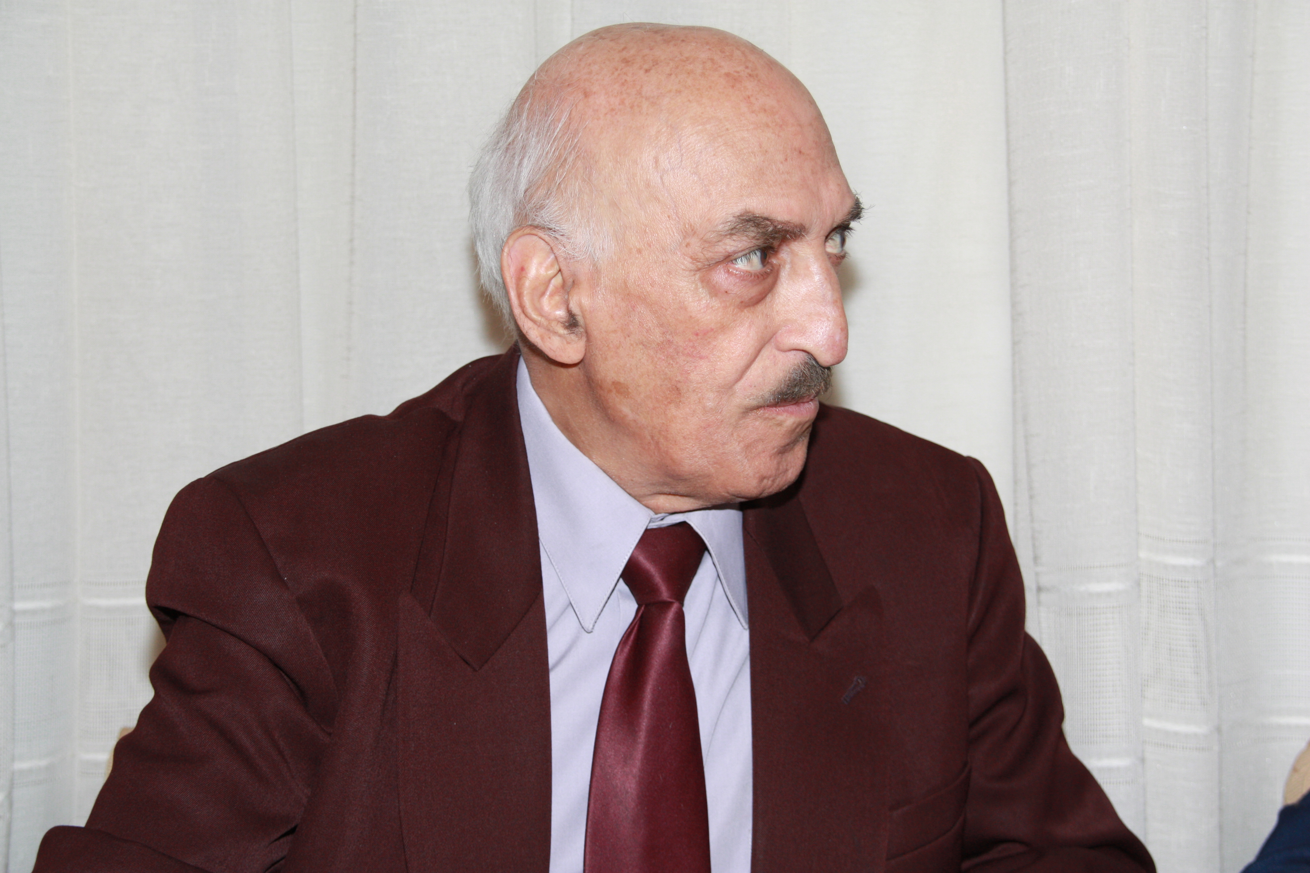 Dr David H. Bavand - A spokesman for the National Front of Iran